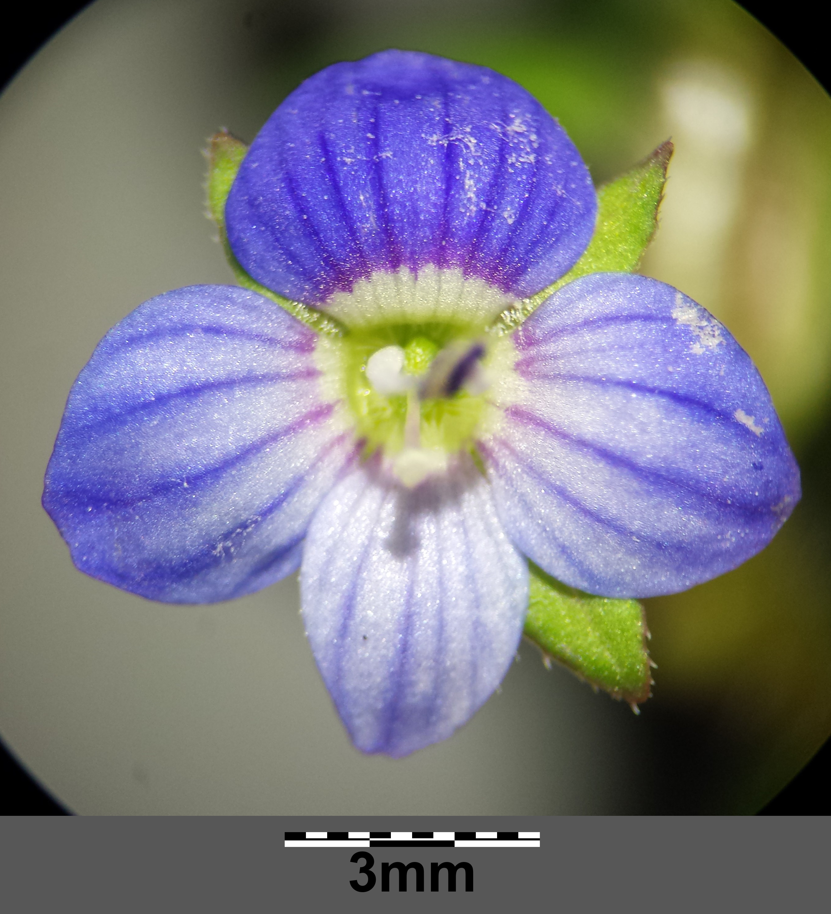 Flower, front view Taxonym: Veronica polita ss Fischer et al. EfÖLS 2008 ISBN 978-3-85474-187-9 Location: Pragerstraße/O'Brien-Gasse/Am Nordwestbahnhof, Vienna-Floridsdorf - ca. 160 m a.s.l. Habitat: abandoned allotment